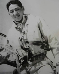 1941: First and only American fighter ace of Korean descent Ohr was born in Portland, Ore., in 1919, and became an aviation cadet in 1941. He was later assigned to the 2nd Fighter Squadron, 52nd Fighter Group, in North Africa and Sicily as a fighter pilot flying Spitfires. He scored his first aerial combat victory flying a Spitfire in 1943. The rest of his victories came after the group transitioned to P-51s in 1944. Ohr ended his tour of duty as the squadron's commanding officer.After the war, he returned to college in California. He studied at the University of California, Berkley, and Northwestern Dental School in Chicago. He established a career as a dental surgeon in Chicago.